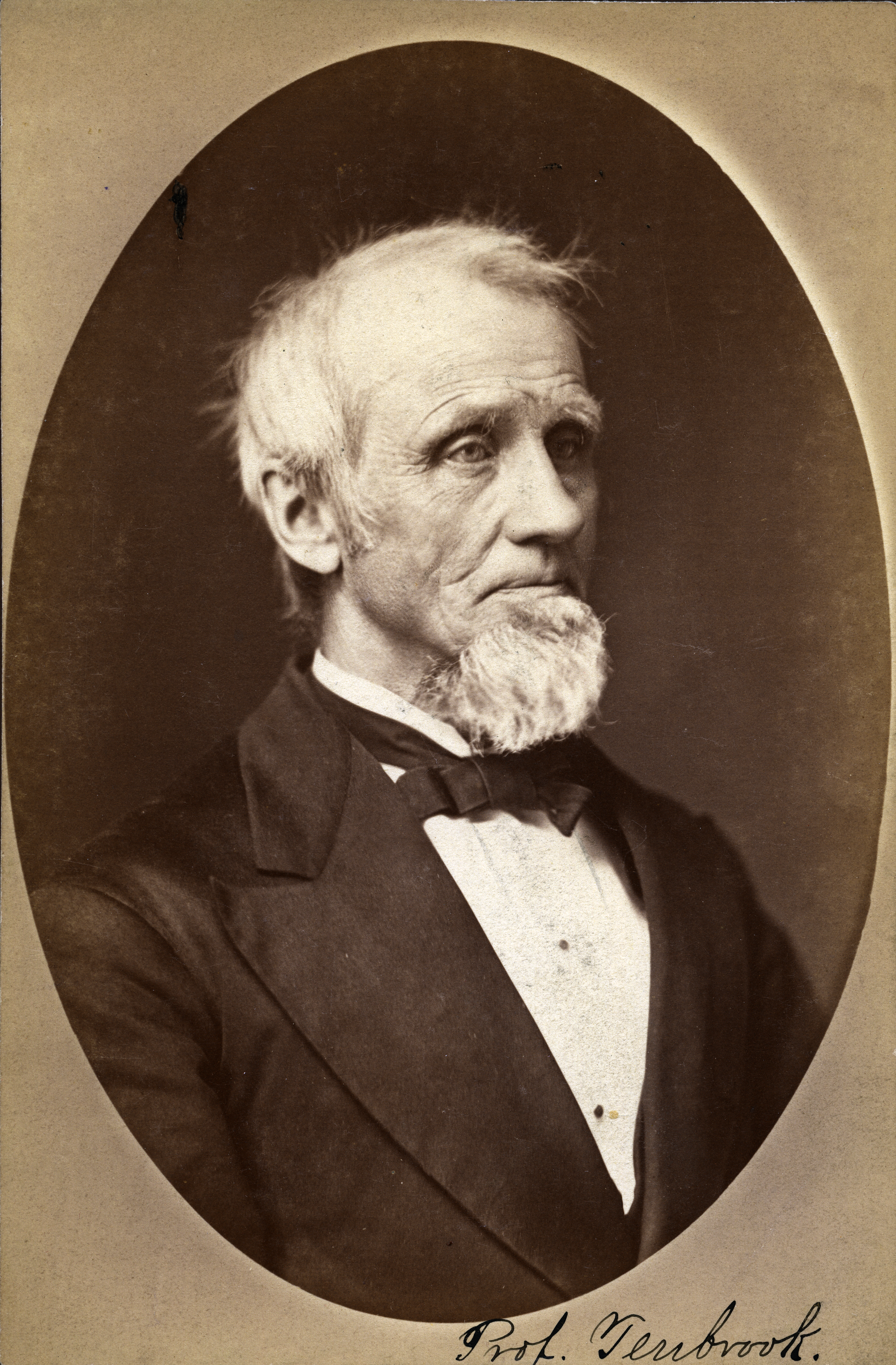 Portrait of Andrew TenBrook, Professor and Librarian at the University of Michigan